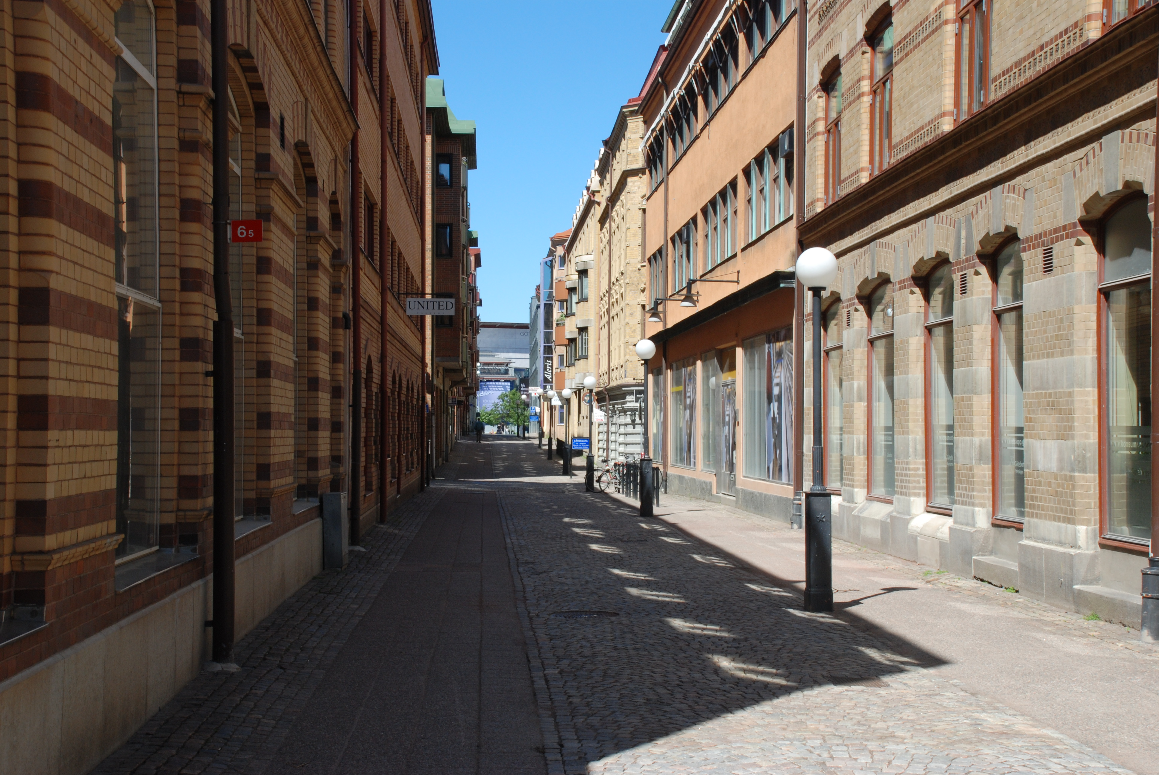 Torggatan in city part (Västra) Nordstaden in Göteborg. Between Postgatan and Kronhusgatan.